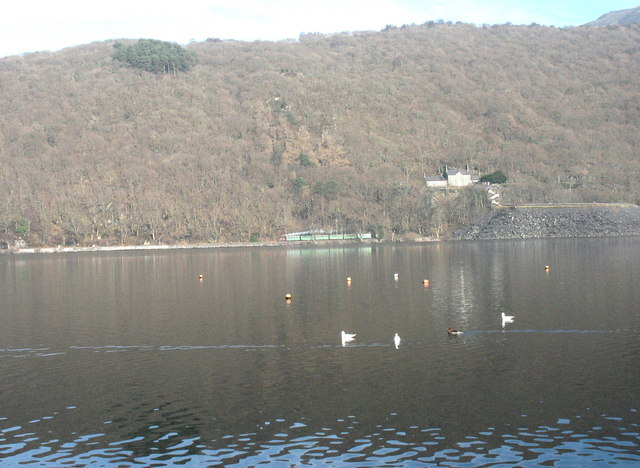 A train on the Llanberis Lake Railway seen across Llyn Padarn